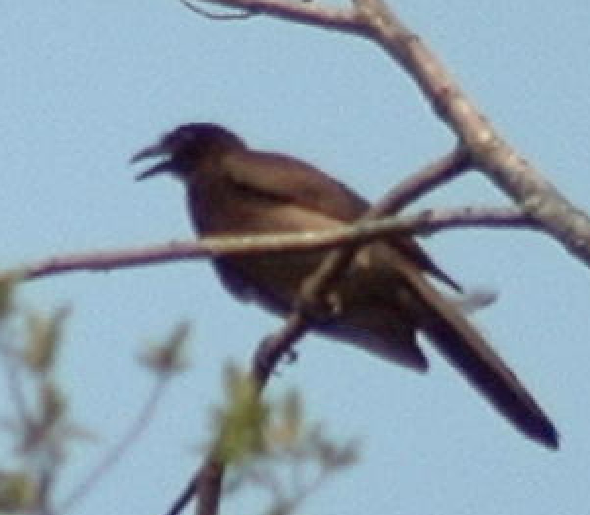 Brown Jay Psilorhinus morio (syn. Cyanocorax morio), Mazín Chico (a suburb of Camelia Roja), San Juan Bautista Tuxtepec, Oaxaca, Mexico, May, 2005. This is a common and conspicuous species, so pretty soon someone should have a better picture.